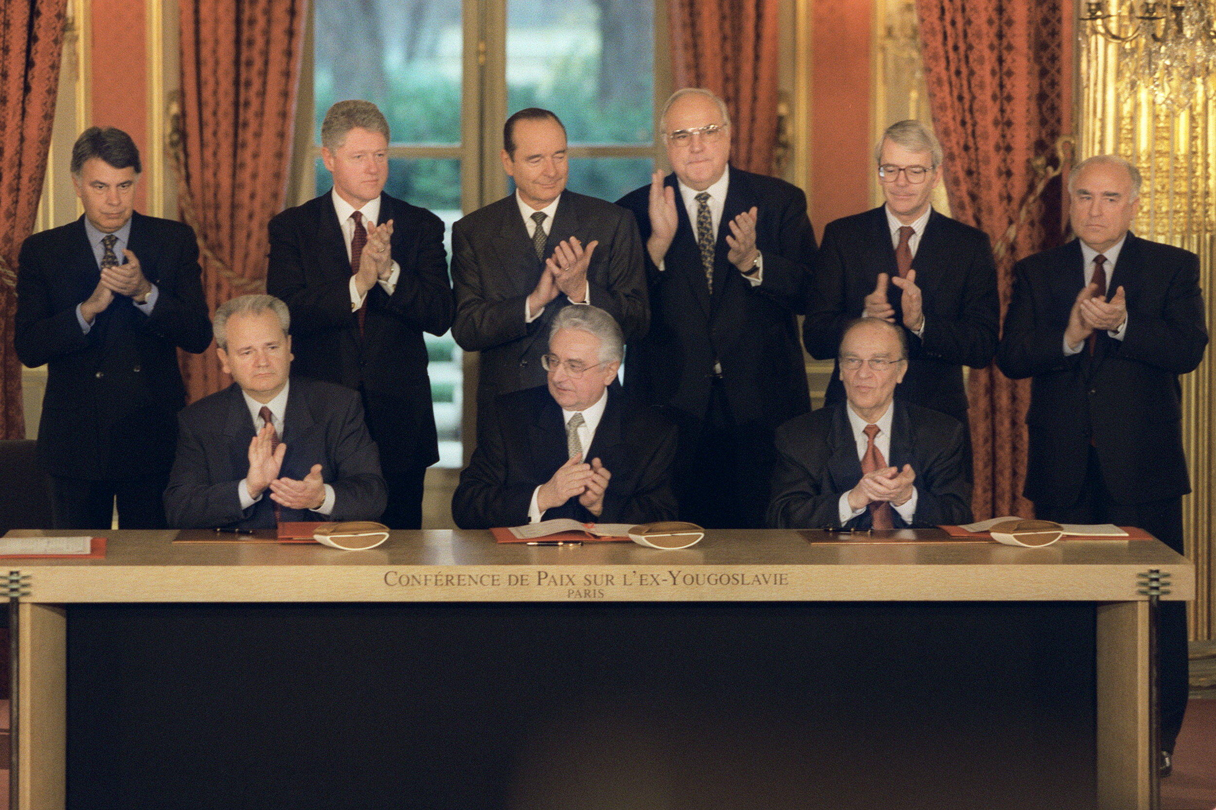 Signing the Dayton Agreement. Seated (left to right): President of Serbia Slobodan Milosevic, President of Croatia Franjo Tudjman, President of Bosnia Herzegovina Alija Izetbegovic; standing (left to right): Spanish Prime Minister Felipe Gonzalez, US President Bill Clinton, French President Jacques Chirac, German Chancellor Helmut Kohl, UK Prime Minister John Major and Russian Prime Minister Viktor Chernomyrdin